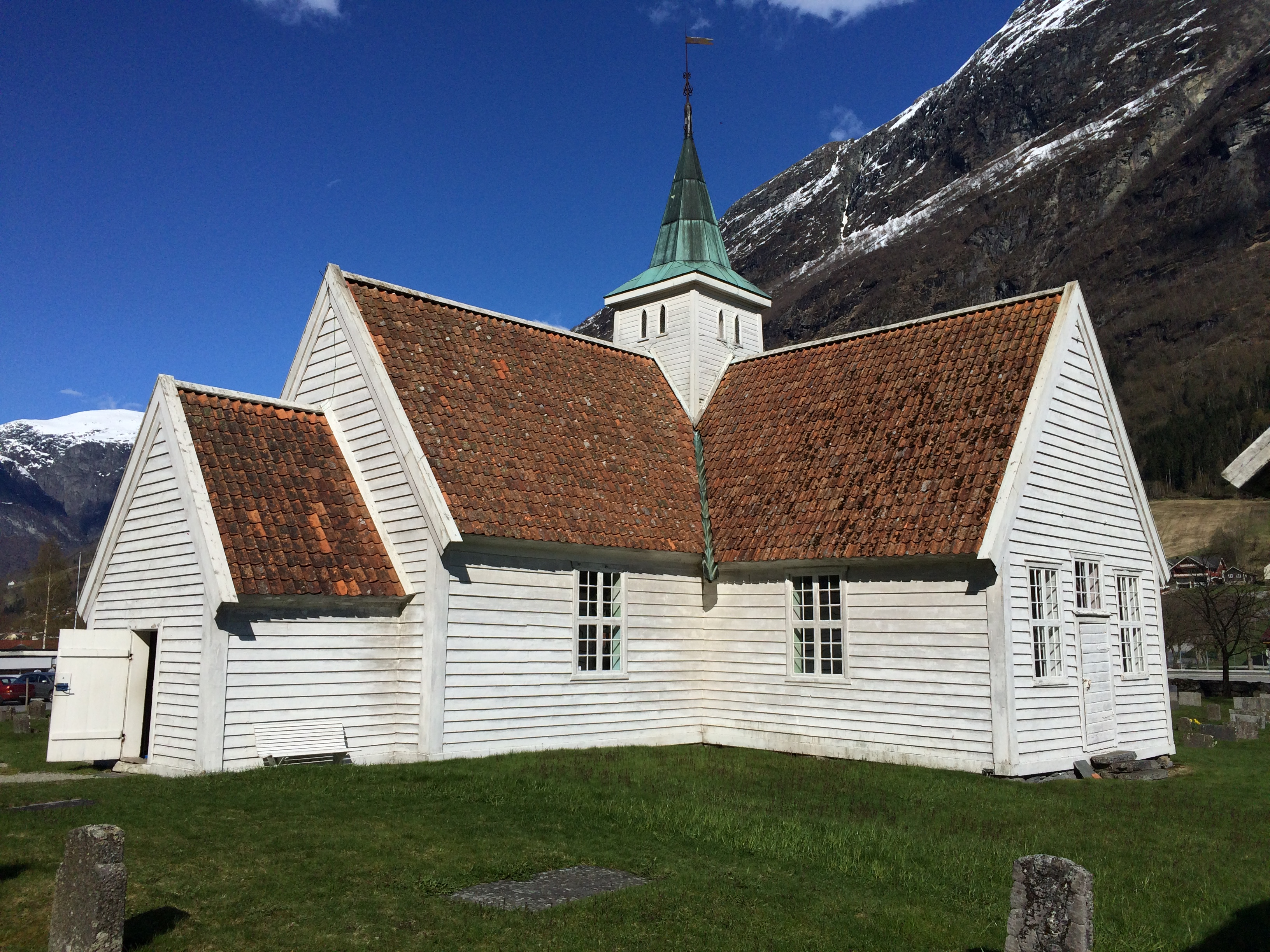 Olden Old Church in Olden, Stryn Municipality, Sogn og Fjordane, Norway. 28th April, 2015.